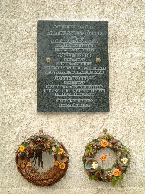 The memorial tablet of József Kossics, in the Felsőszölnökian School